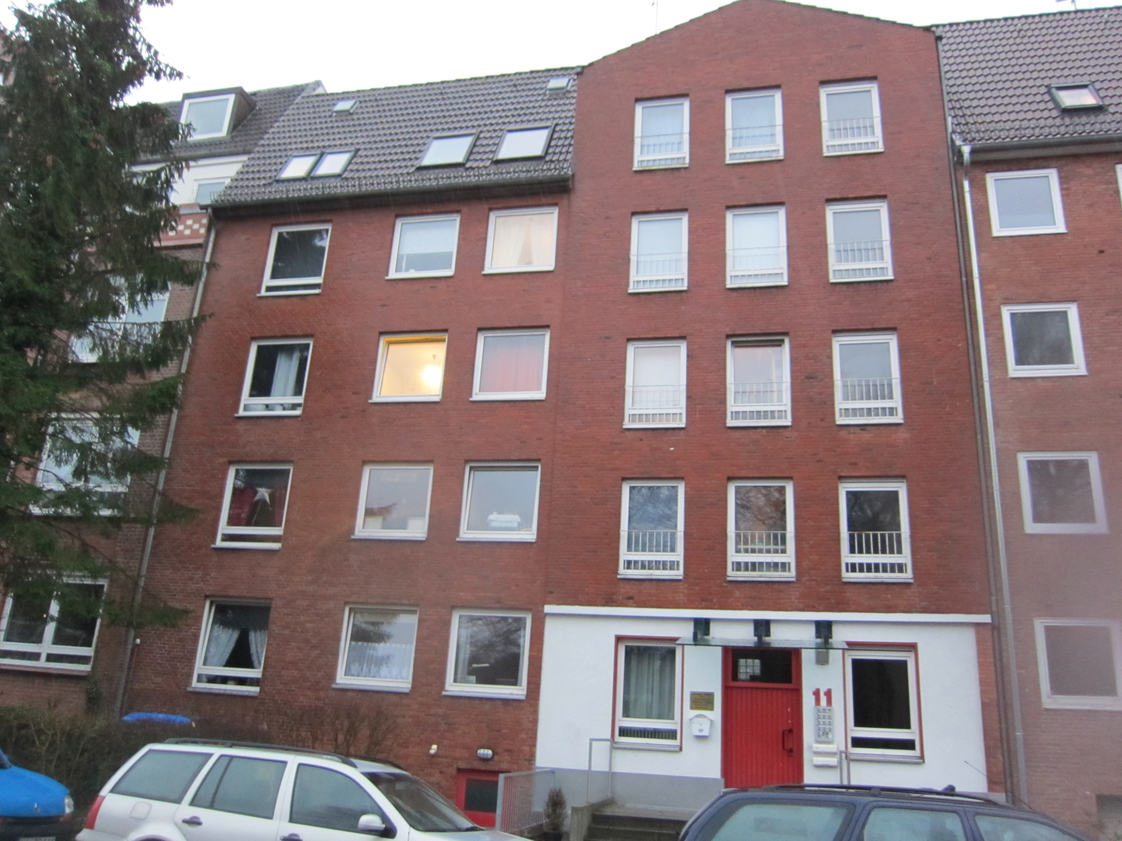 Dormitory "Ferdinand Tönnies Haus" of the Ferdinand Tönnies Society